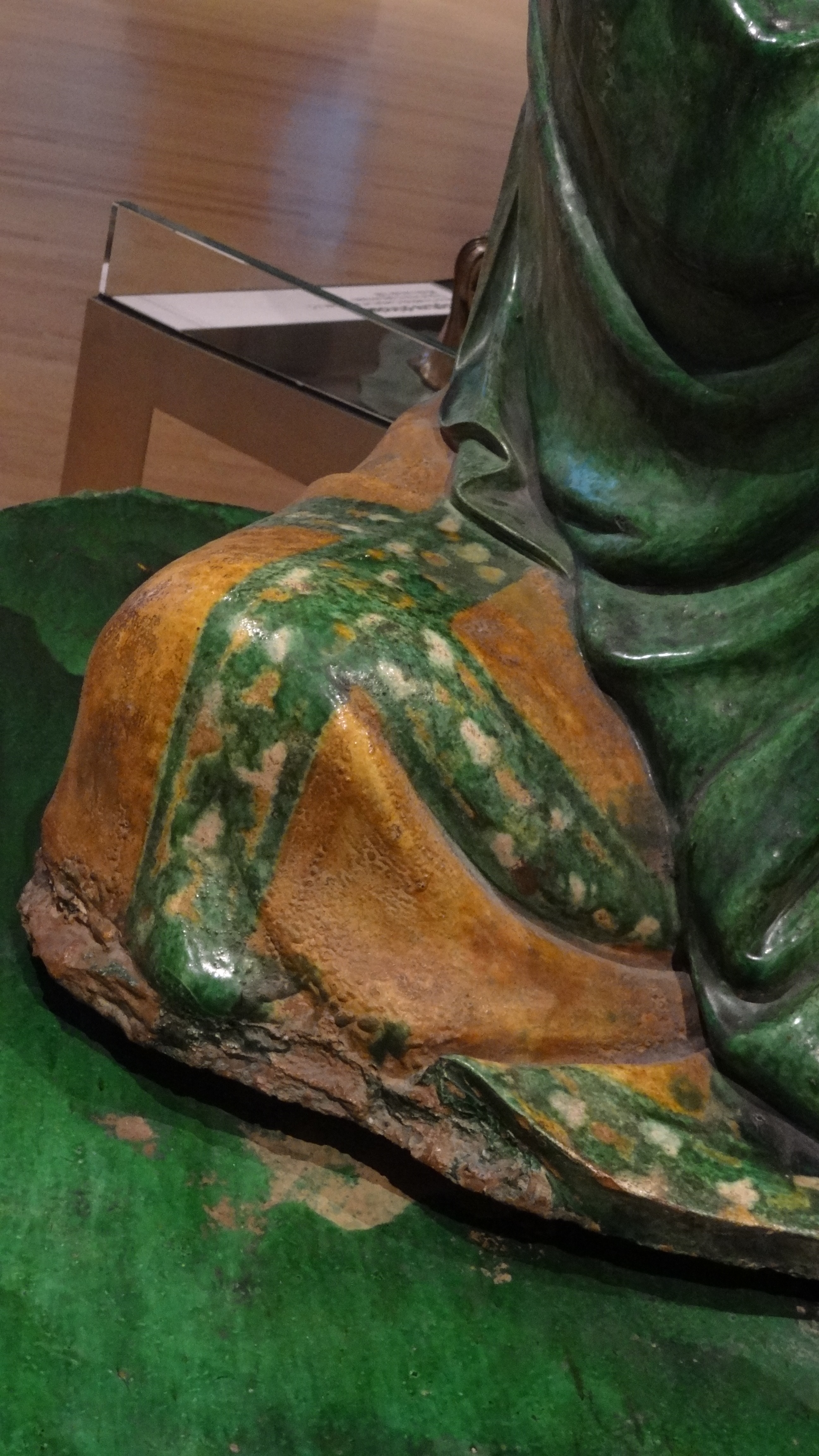 ceramic statue